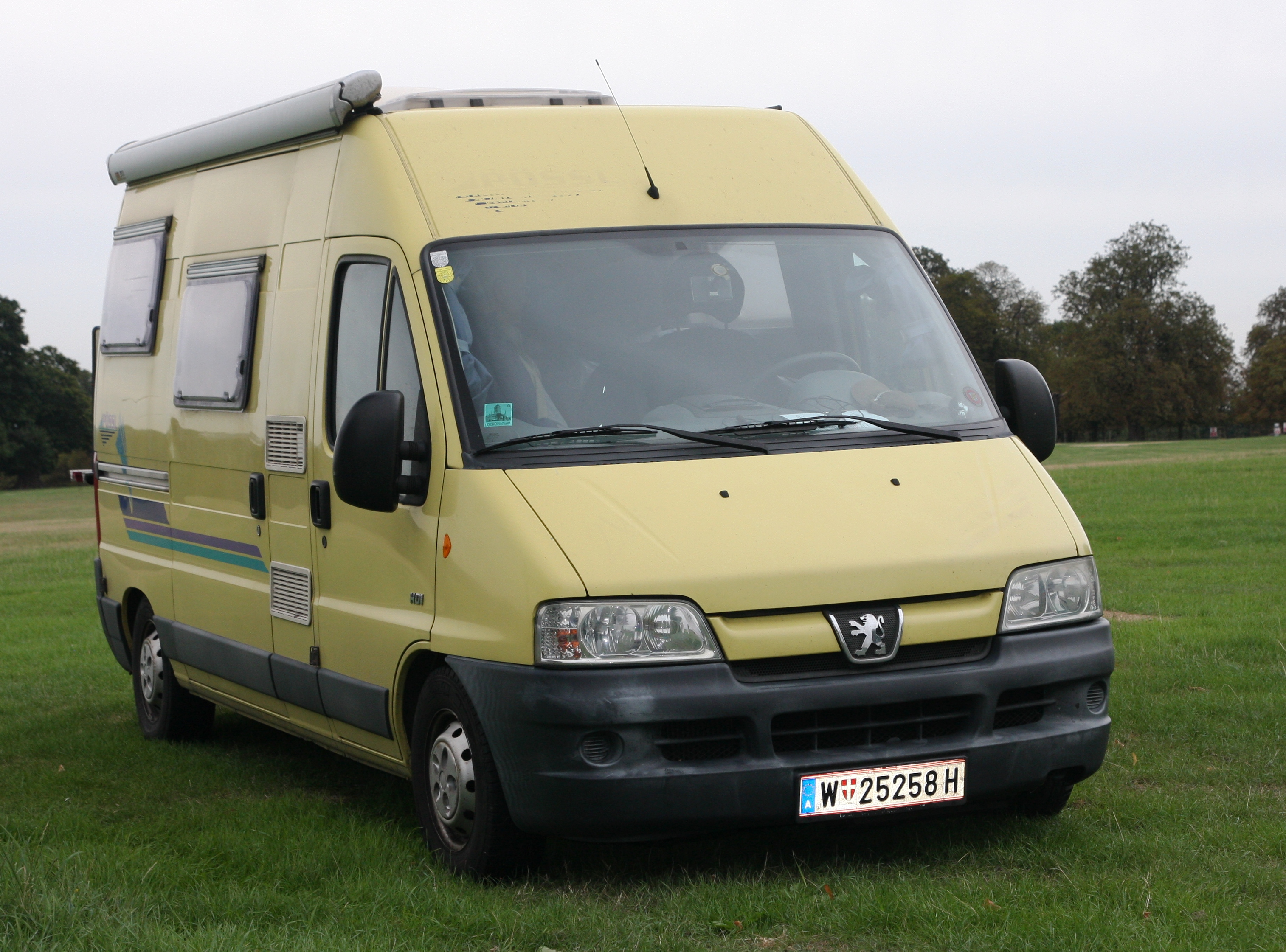 Peugeot Boxer based motorhome aus Wien in Hertfordshire